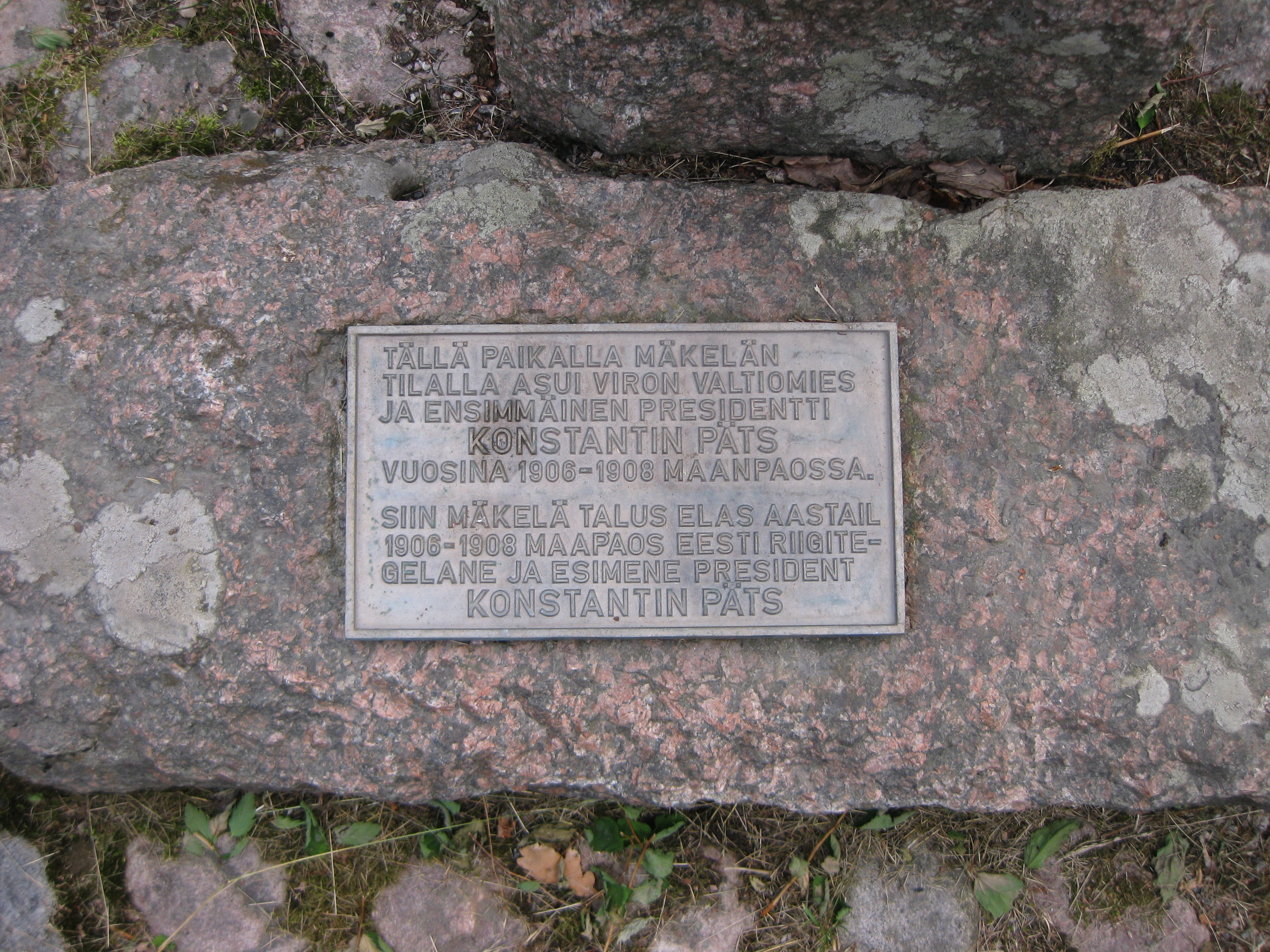 Konstantin Päts plaque in Vantaa (Linnainen), Finland.